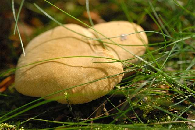 Polyporus leptocephalus from Commanster, Belgium. The determination of the species shown in this picture has been verified.